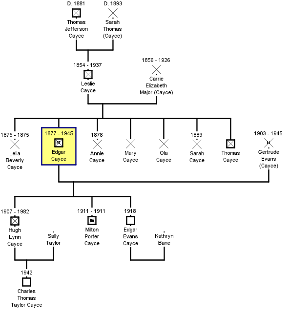 Immediate family tree of Edgar Cayce, from grandparents to grand children. Exported from GenoPro 2007.